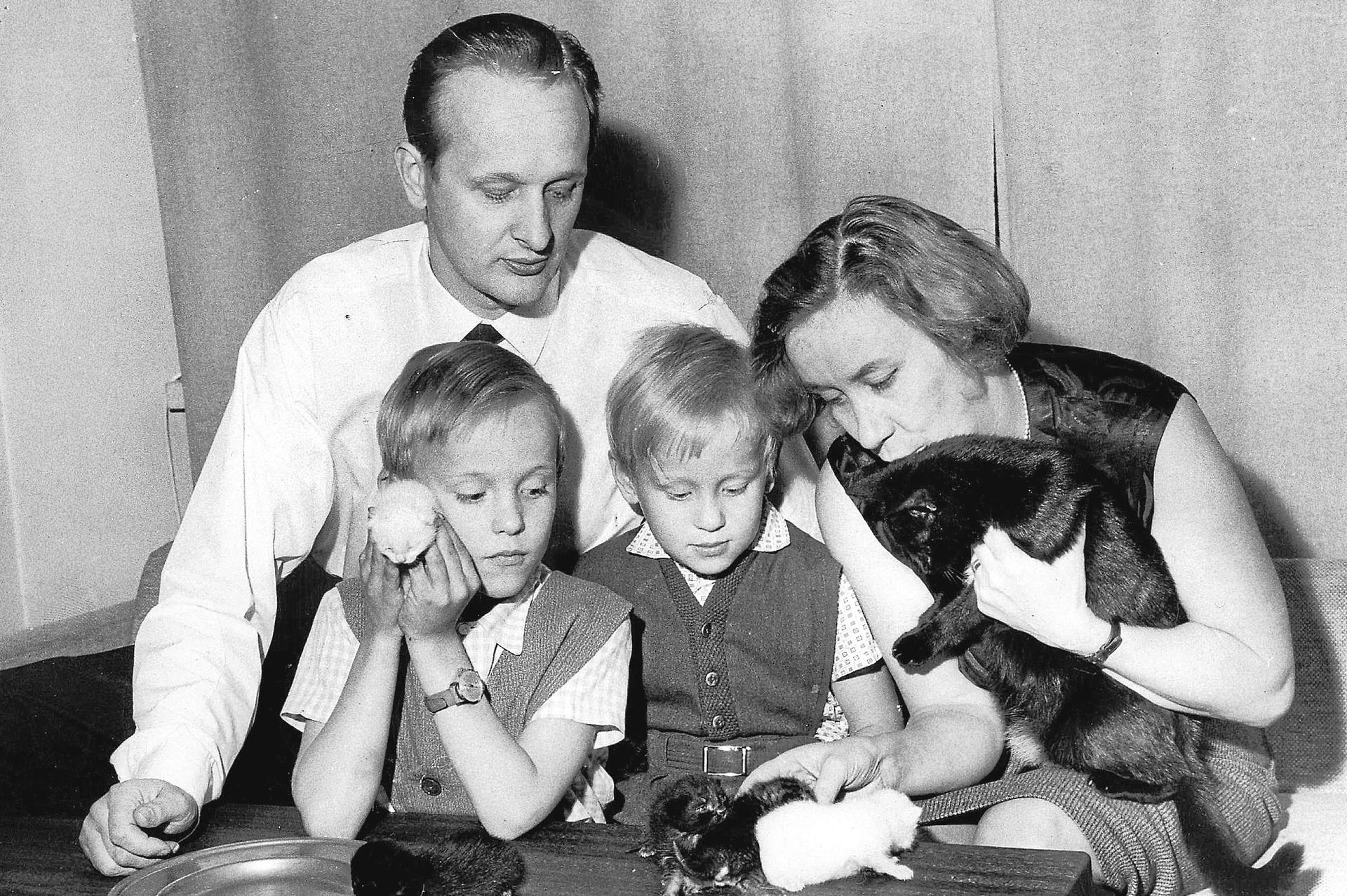 Photograph of the family of the Finnish writers Jaakko Syrjä (1927–) and Kirsi Kunnas (1924–), with their children Mikko and Martti.